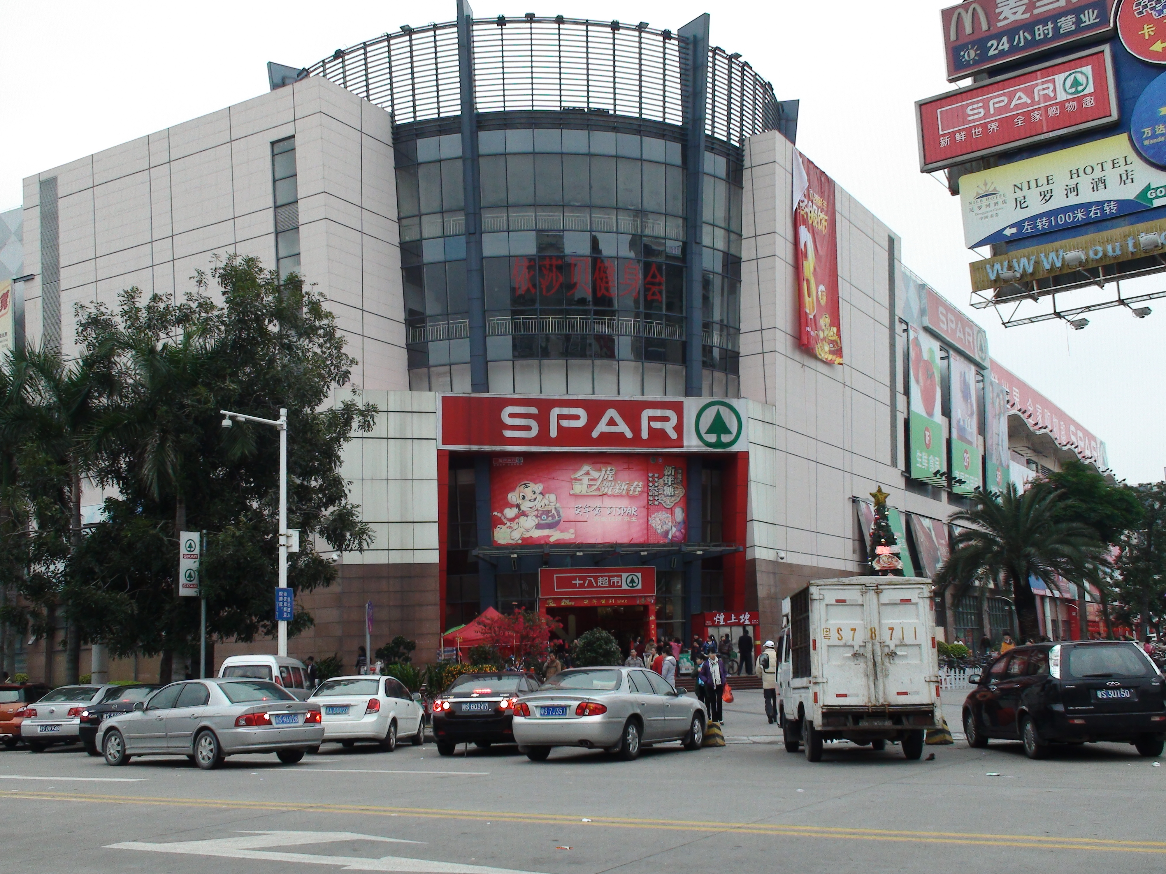 SPAR hypermarket entrance, New South China Mall, Dongguan, China